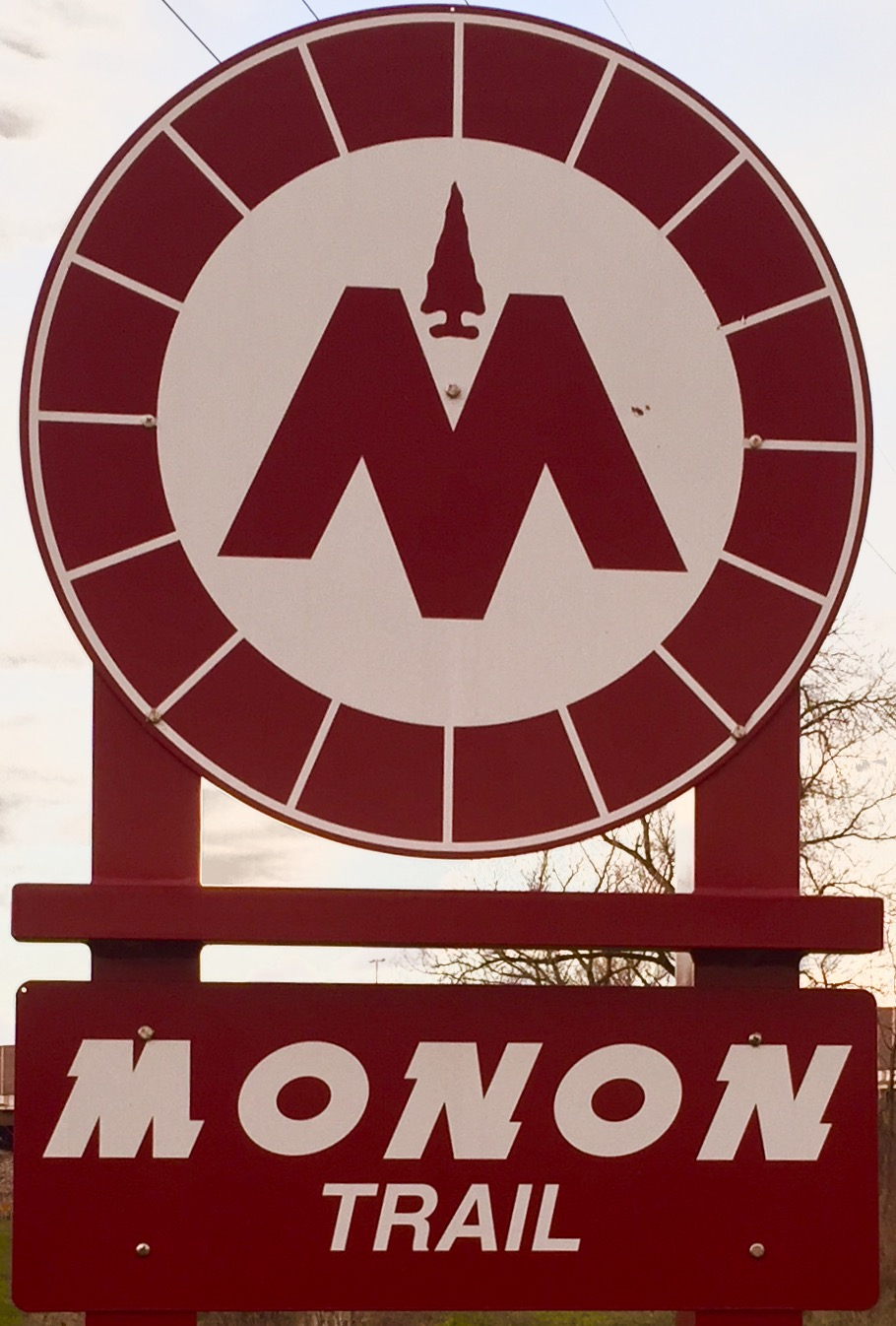 Monon Trail logo photographed in Munster, Indiana.